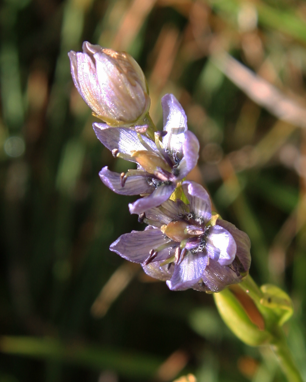 Star felwort (Swertia perennis), closeup of flower spike with blue-violet, darker-veined, 5-petaled flowers. At 10,620 ft (3,240 m) on small grassy island in stream down from Kearsarge Lakes to Bullfrog Lake, Kings Canyon National Park, Sierra Nevada USA.